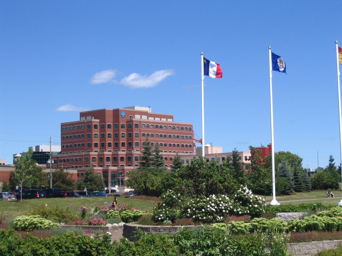 Blue Cross Centre, Moncton New Brunswick